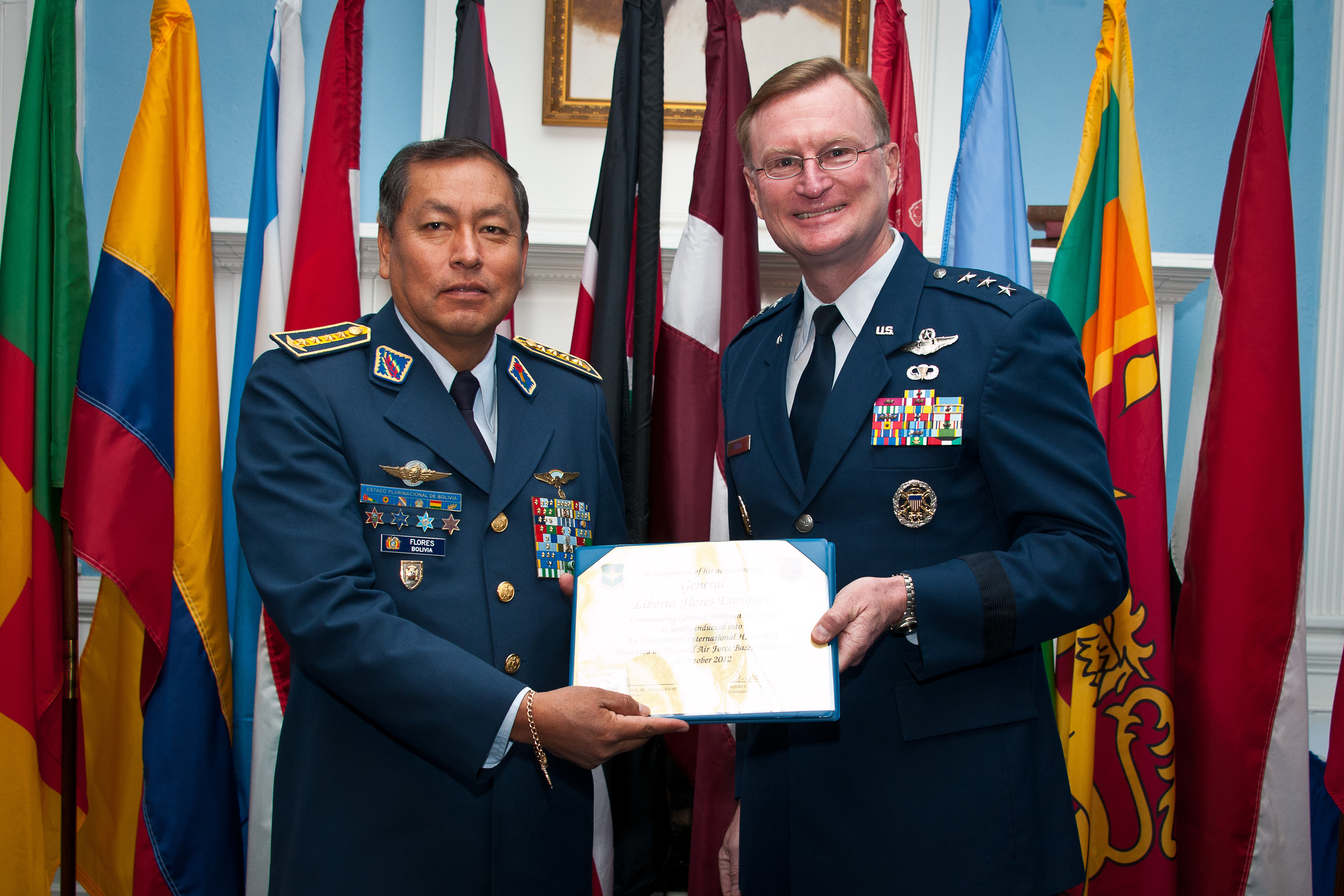 Lt. Gen. David Fadok, the Air University commandant and president, presents Gen. Liborio Flores Enriquez, commanding general Bolivian air force his certificate of induction into the International Honor Roll. Gen. Enriquez attended Squadron Officer School at Air University in 1993. Air University International Honor Roll Induction Ceremony 2012 was held Wednesday, Oct. 31, 2012, at the Maxwell Club located on Maxwell Air Force Base. (U.S. Air Force Photograph by Donna L. Burnett)